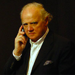 Yves MICHALON, founder of Michalon Editions